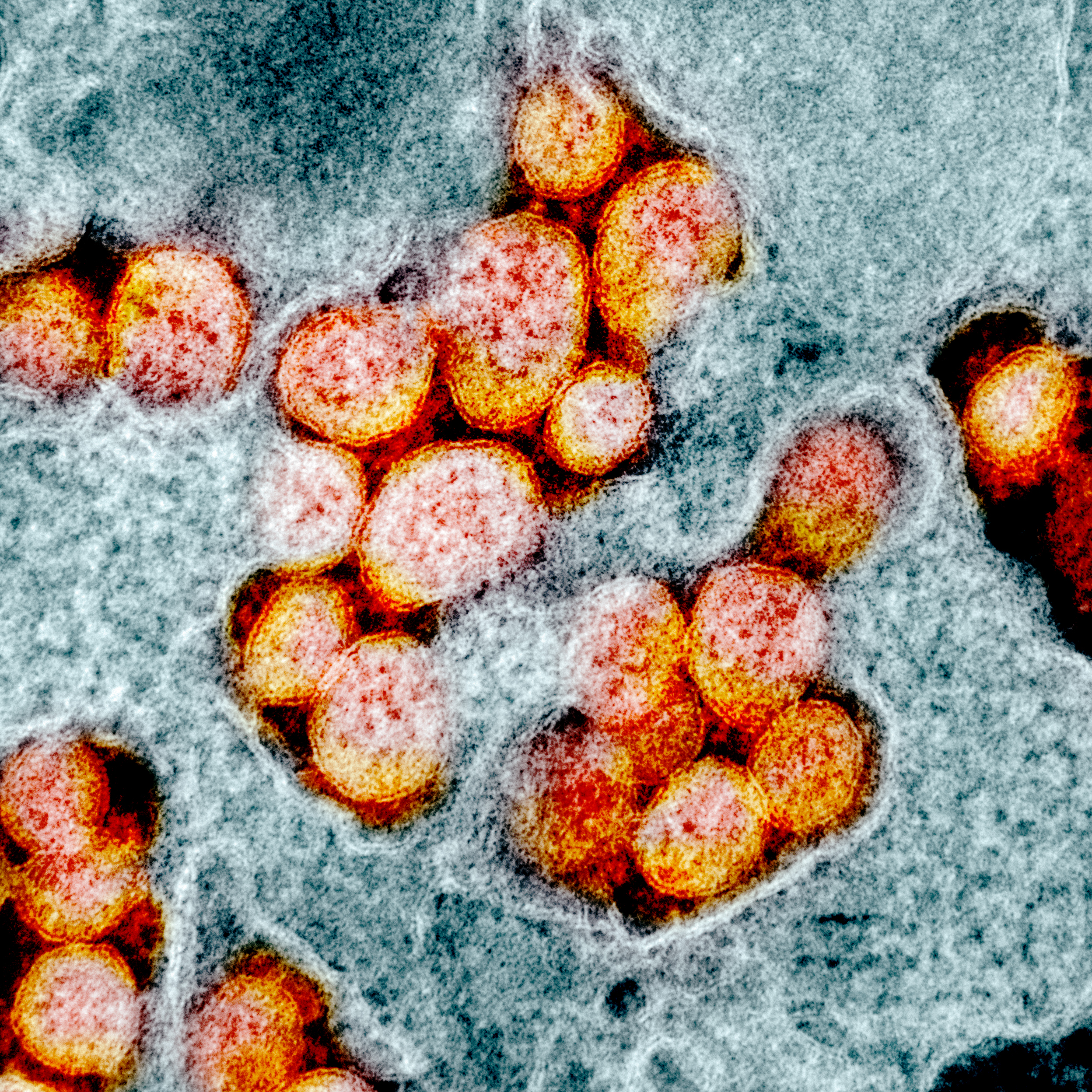 Transmission electron micrograph of SARS-CoV-2 virus particles, isolated from a patient. Image captured and color-enhanced at the NIAID Integrated Research Facility (IRF) in Fort Detrick, Maryland. Credit: NIAID